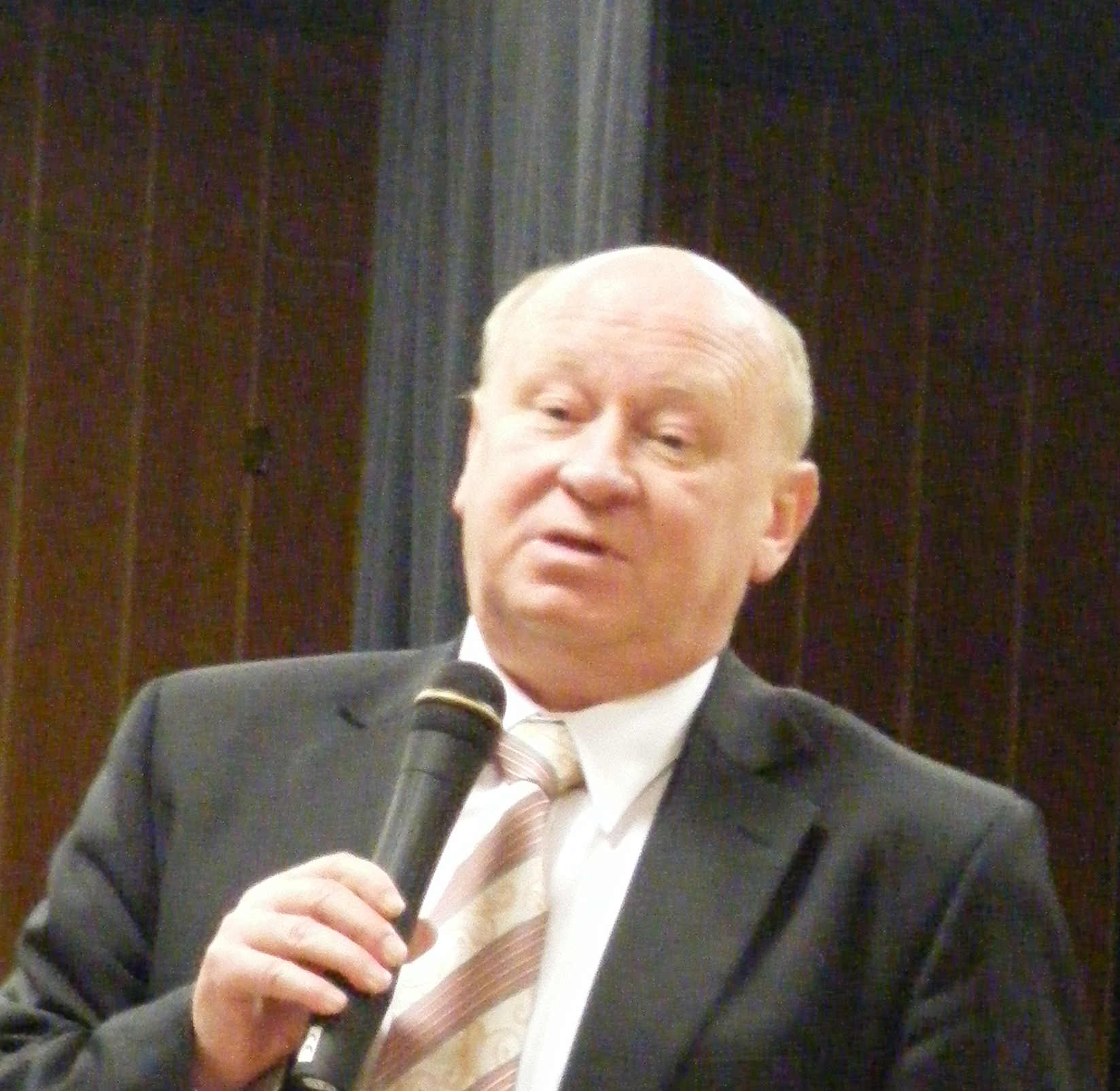 Wolfgang Schuster in Biskirchen